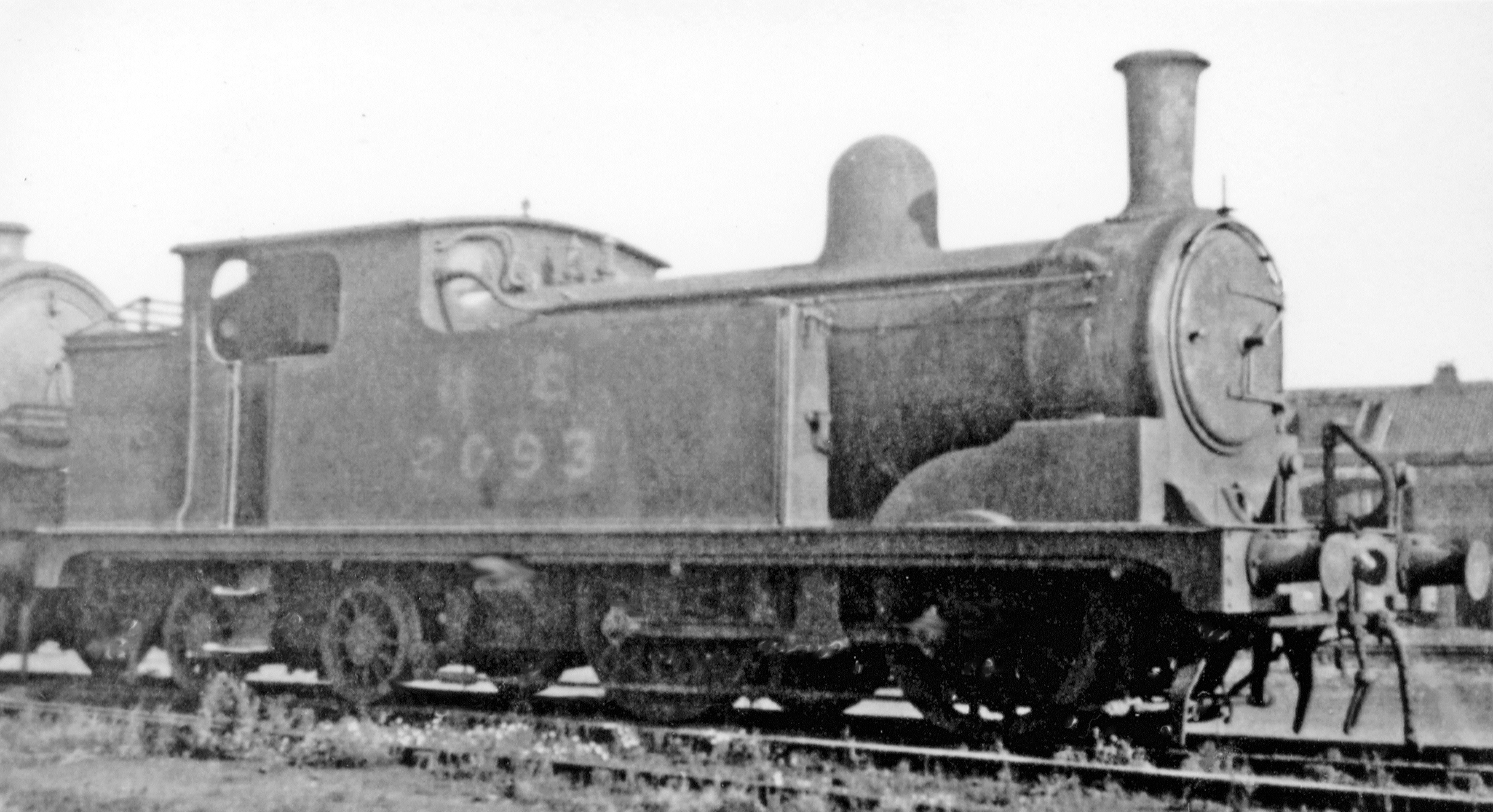 Ex-NER 0-4-4T in Stratford Locomotive Shed yard, 1946No. 2093 (to be renumbered 7322, then 67322) is one of three 0-4-4Ts, of the numerous Wilson Worsdell NER class O (LNER class G5, banished to Stratford in 1938 and fitted with compressed air push-and-pull gear for working the Epping - Ongar auto-train service. It is waiting among numerous other engines in the Yard, for repair (and renumbering) at Stratford Works. [Photograph taken with my first, primitive camera].